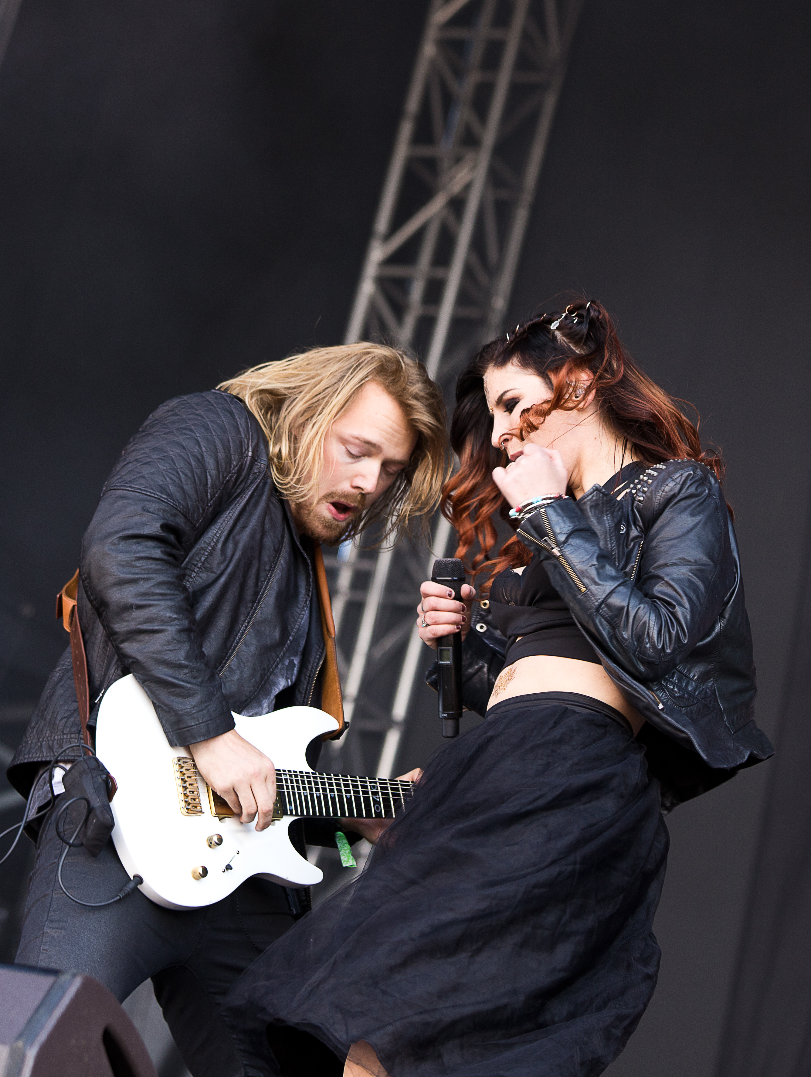 The Dutch symphonic metal band Delain at the Rockharz Open Air 2015 in Ballenstedt/Germany.